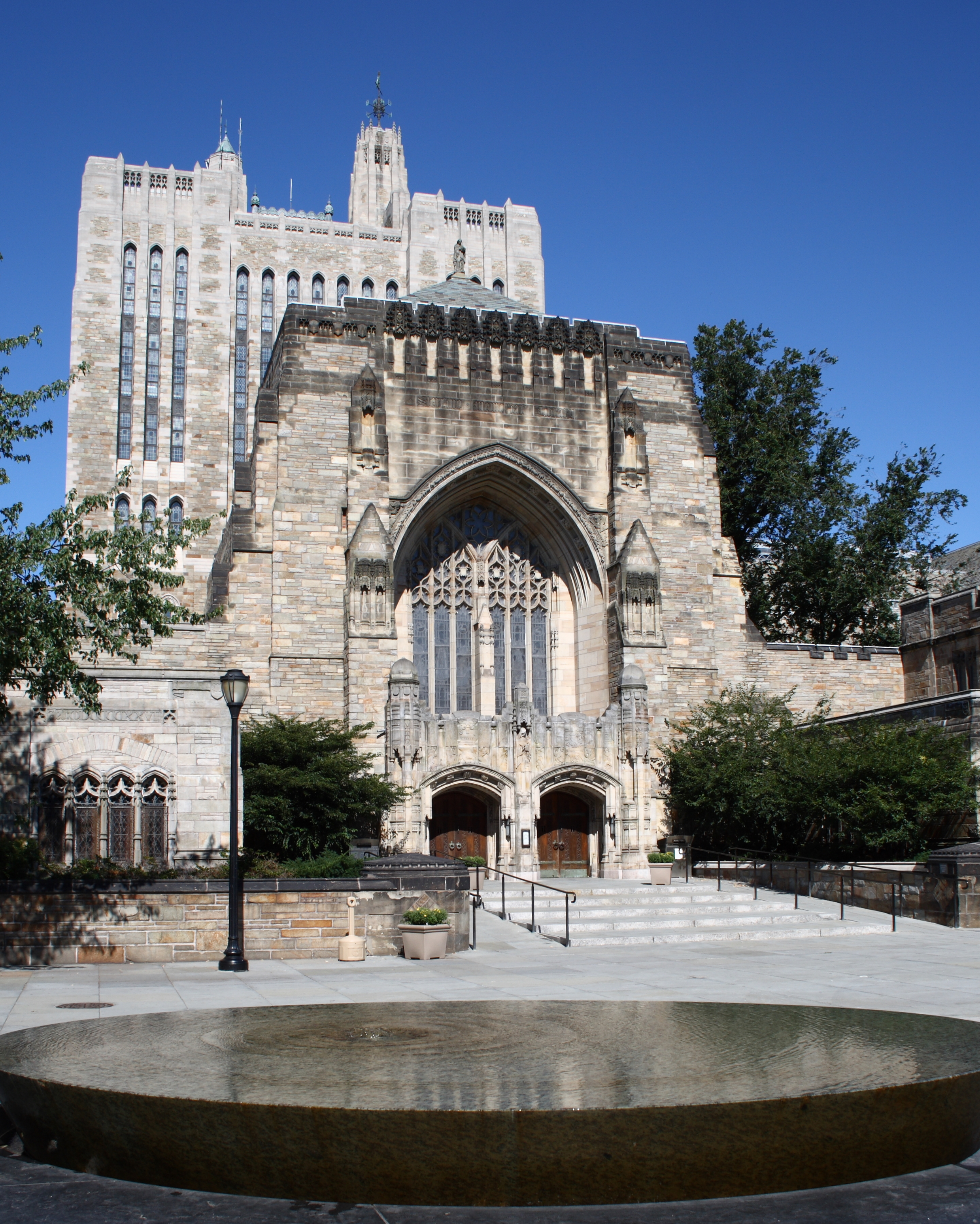 Sterling Memorial Library on the campus of Yale University. The Women's Table (designed by Maya Lin) is in the foreground. - Google Maps - Google Earth